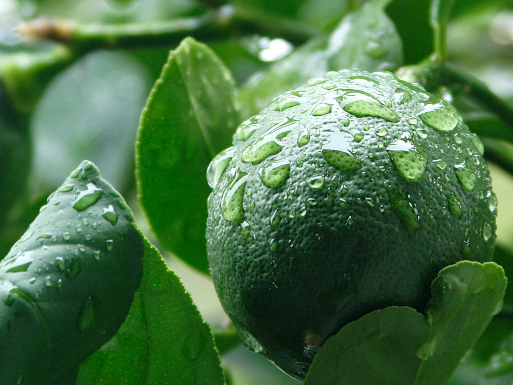 Unripe Meyer lemon, Citrus × meyeri.